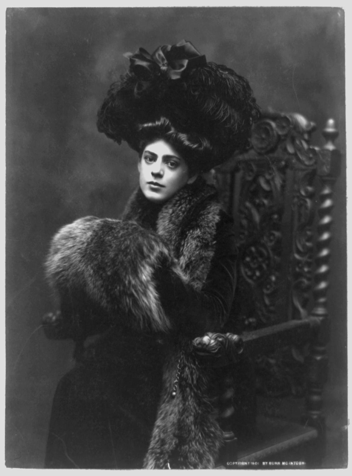 Ethel Barrymore